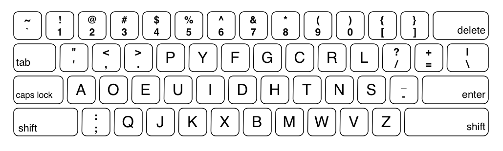 A diagram showing the English Dvorak keyboard layout in a style that matches common Apple and Macintosh keyboards